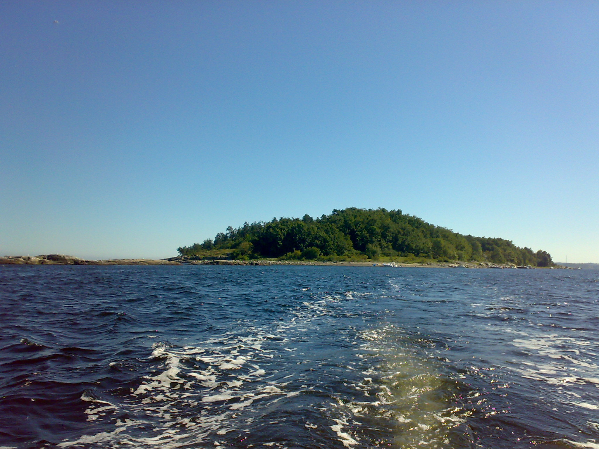 Mölen island, Hurum, Oslo Fjord, Norway. Seen from northwest in direction southeast